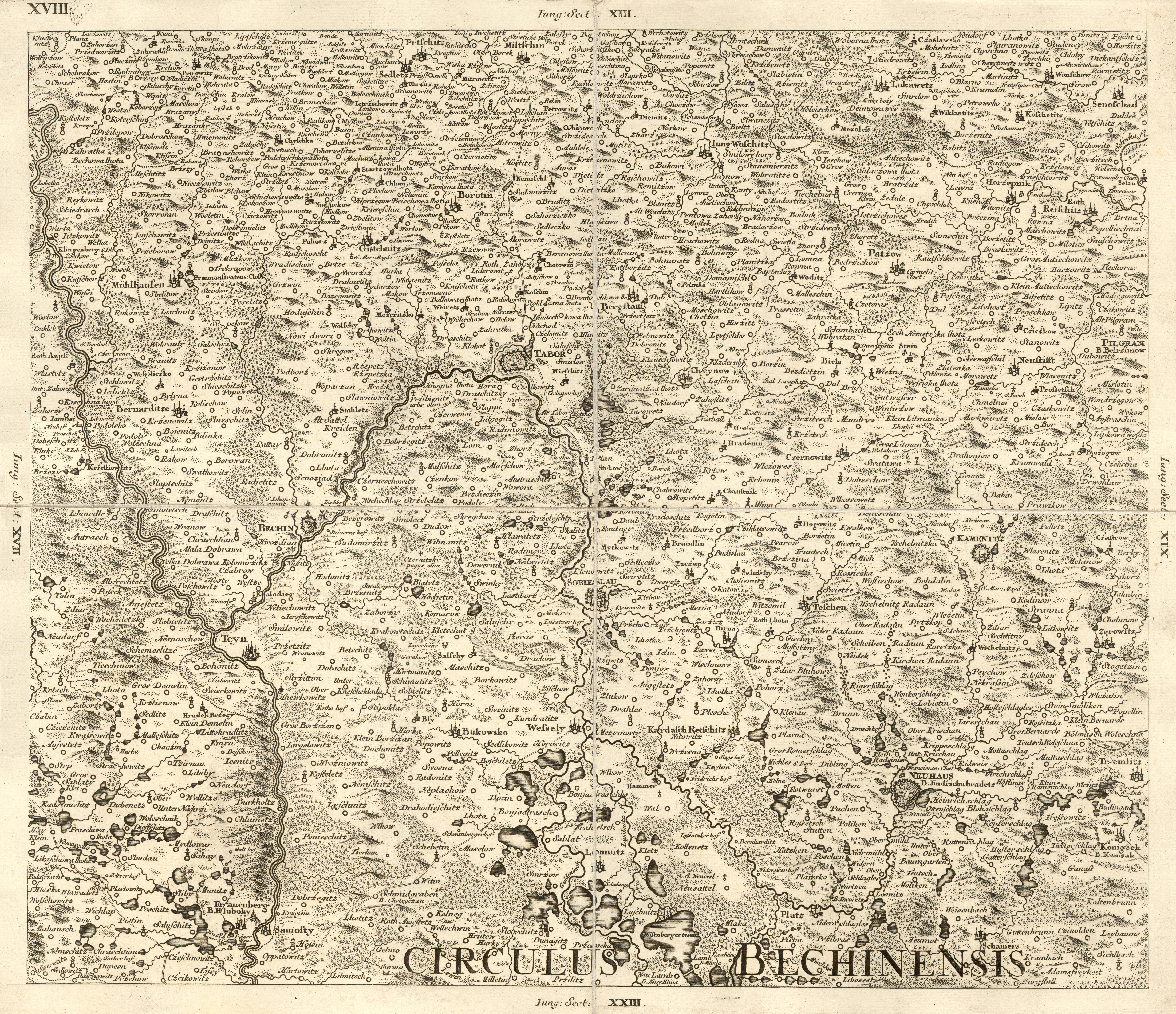 Müller's map of Bohemia.